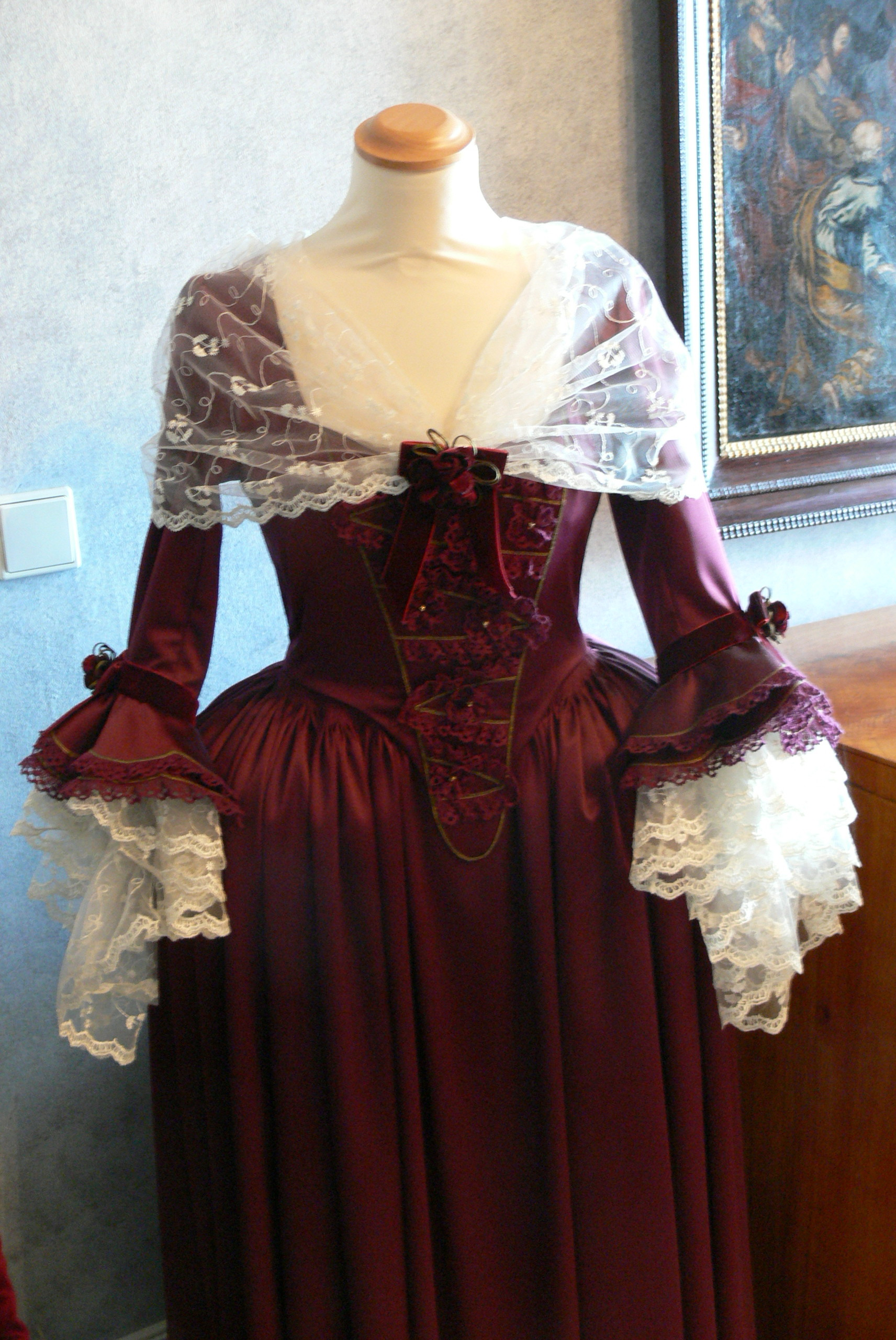 Rožmberk palace ( Prague castle ). Sleeping room - dress of a gentlewoman ( 18th century )